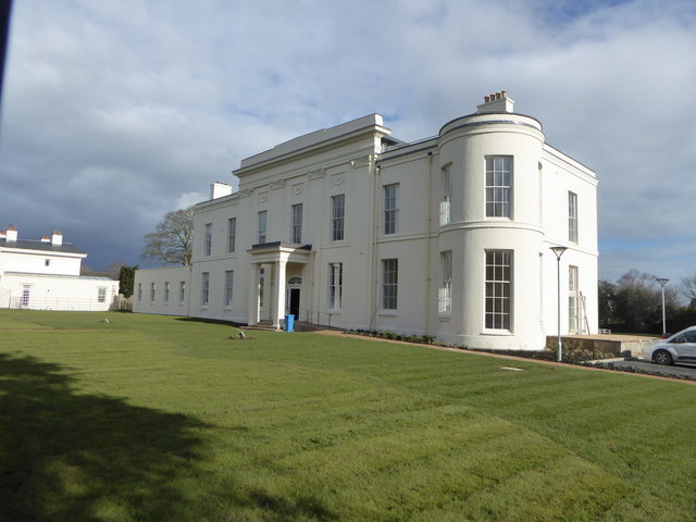 Greenbank Hall, Handbridge